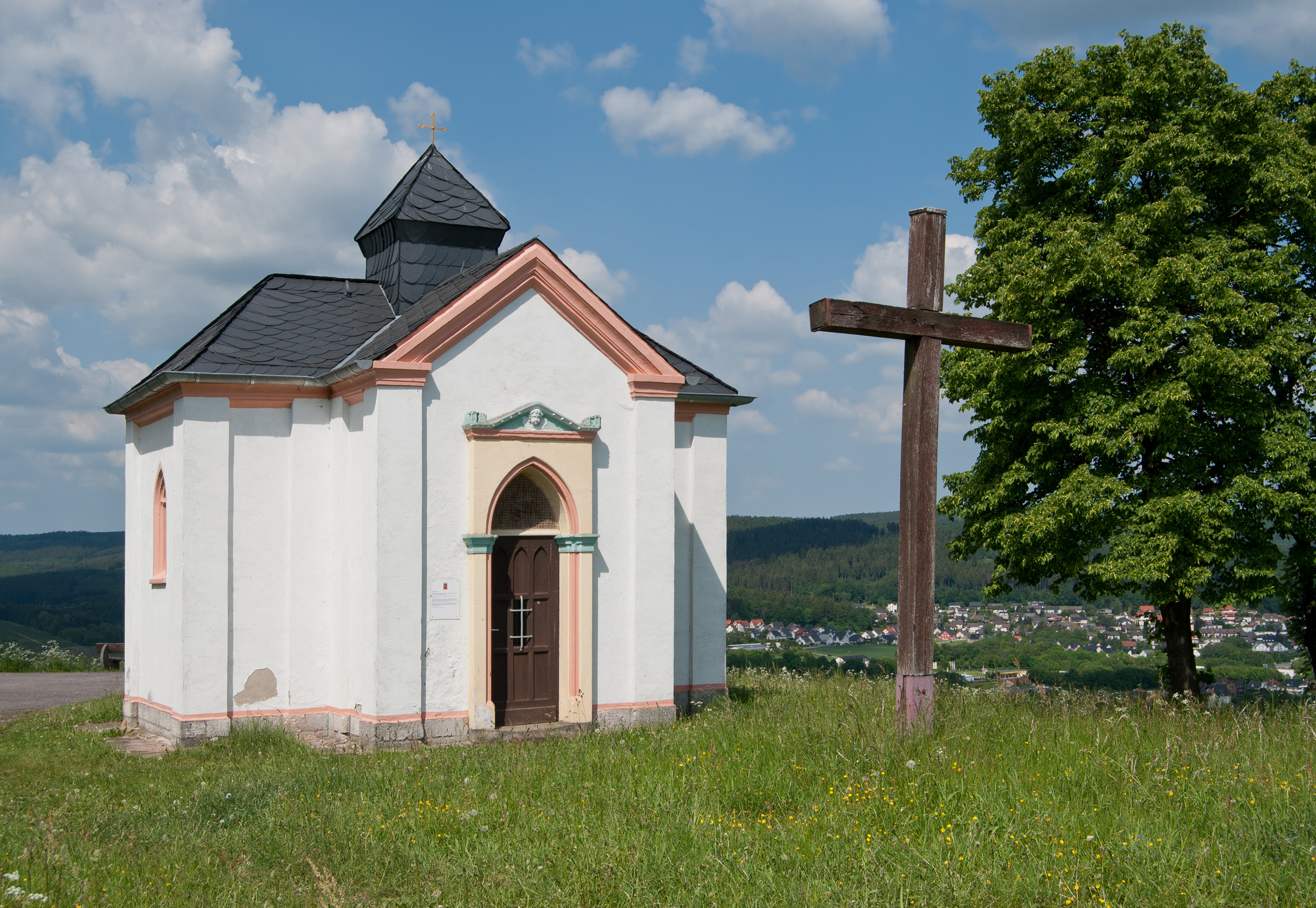 Marsberg (North Rhine-Westphalia, Germany) – peak of Kalvarienberg – Gothic revival chapel (1868) This image shows a heritage building in Germany, located in the North Rhine-Westphalian city Marsberg (no. 62). This photograph was taken with a Nikon D3000